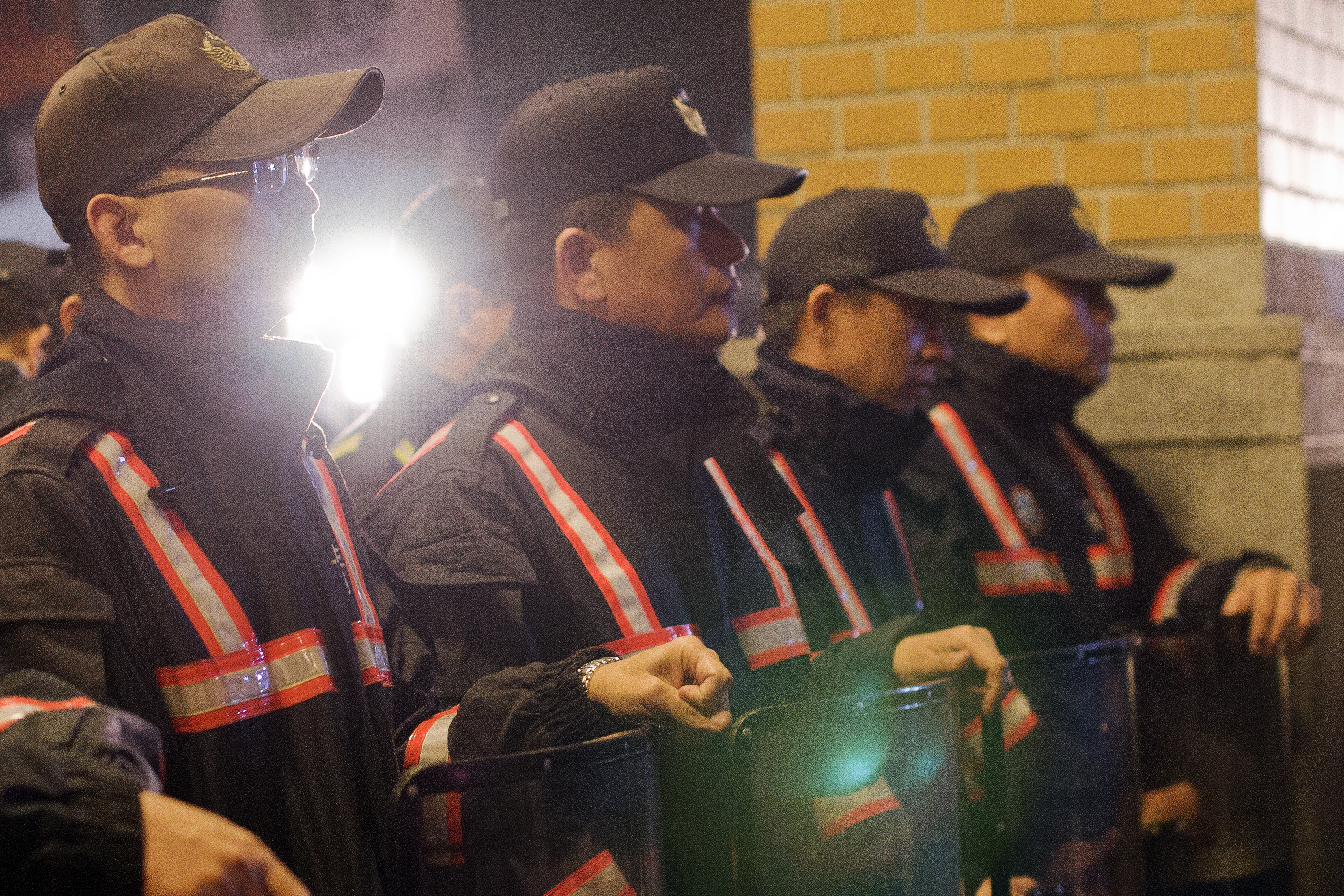 Policemen barricade the front entrance of the Legislative Yuan (立法院).